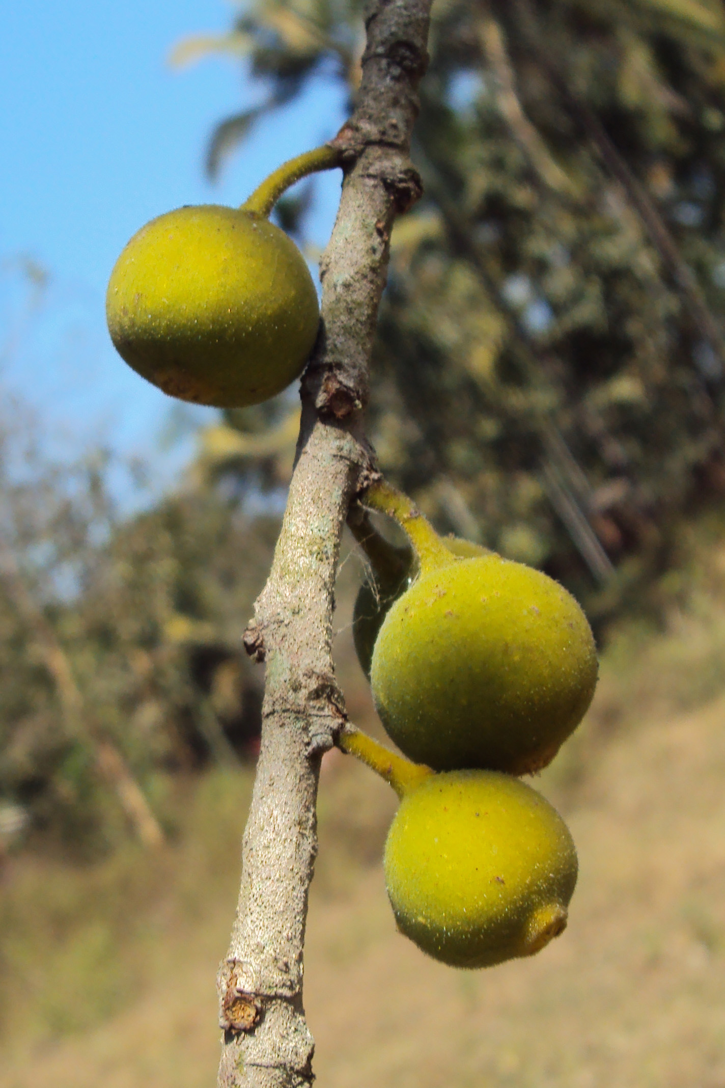 Ficus exasperata